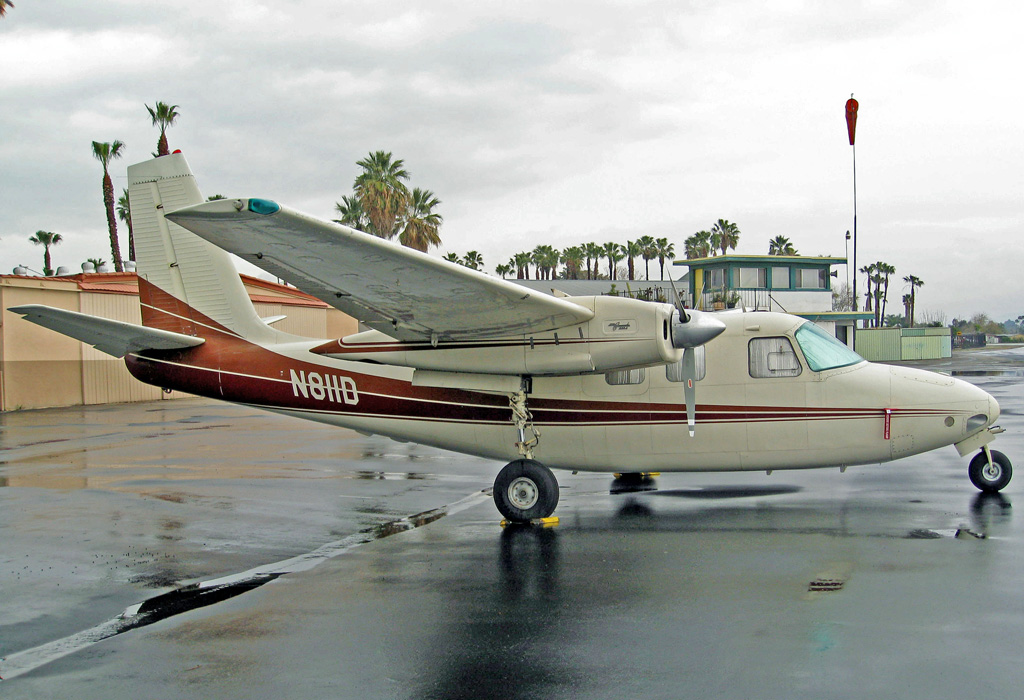 Aero Commander 500S N811D at Flabob Airport Riverside California in 2008